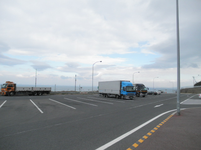 Murodu P.A down line Parking area.JPG